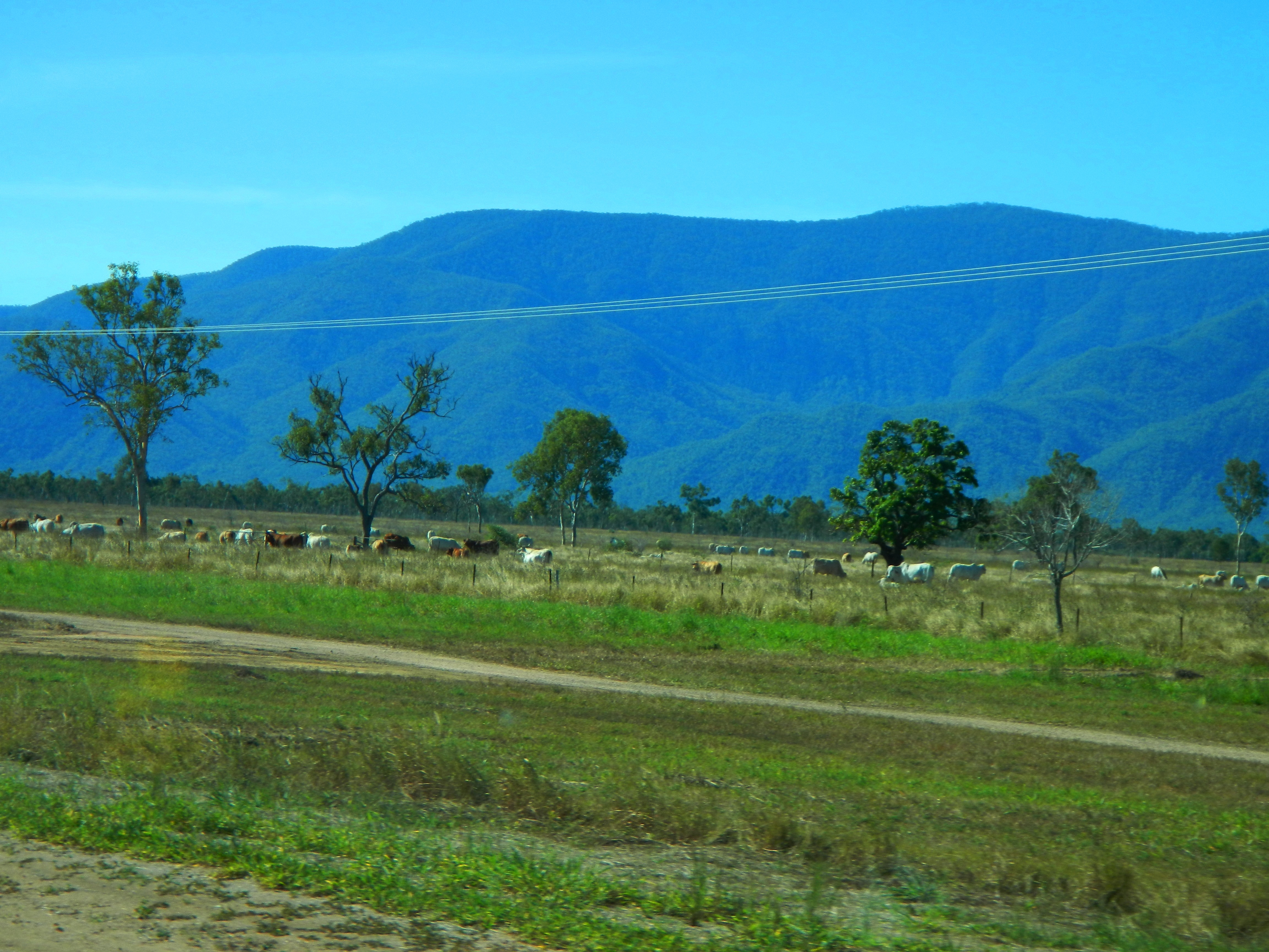 Scenery West of Townsville